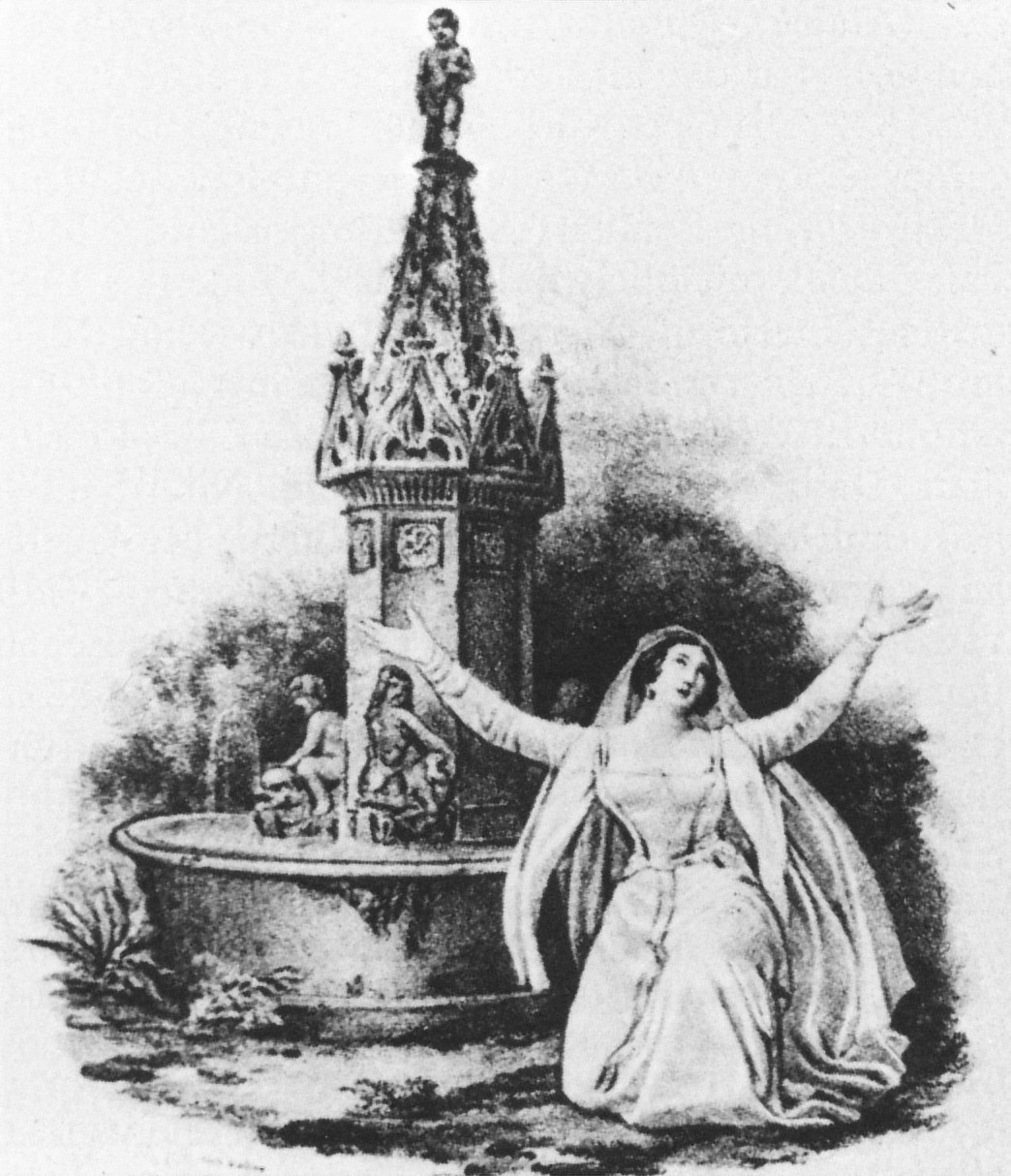 Henriette Méric-Lalande as Alaide in Bellinis La straniera, Milan 1829